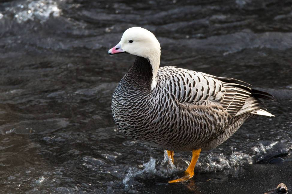 Emperor goose by Lisa Hupp/USFWS